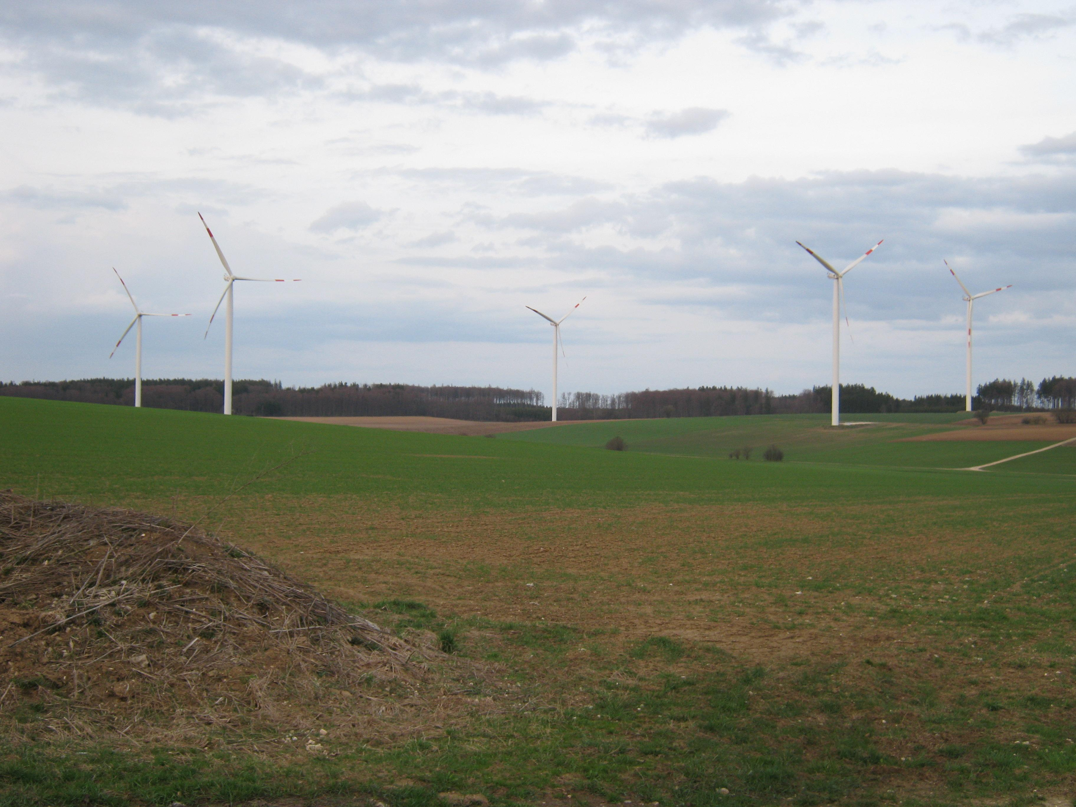 The 5 wind turbines of MM92 type with 100 metres axis height and 92 metres diametre of Essingen Wind park.